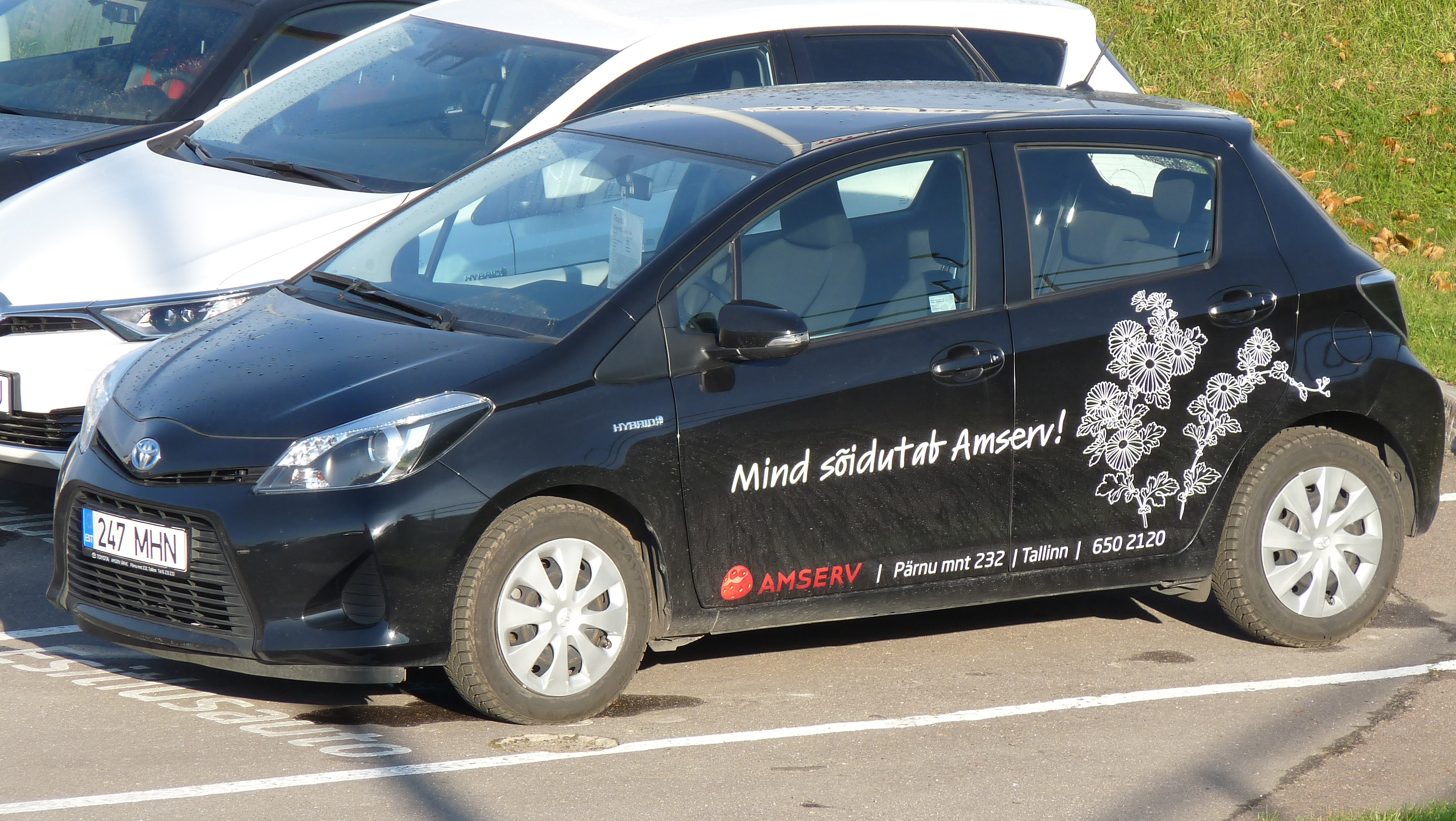 Toyota automobile in Tallinn, Estonia